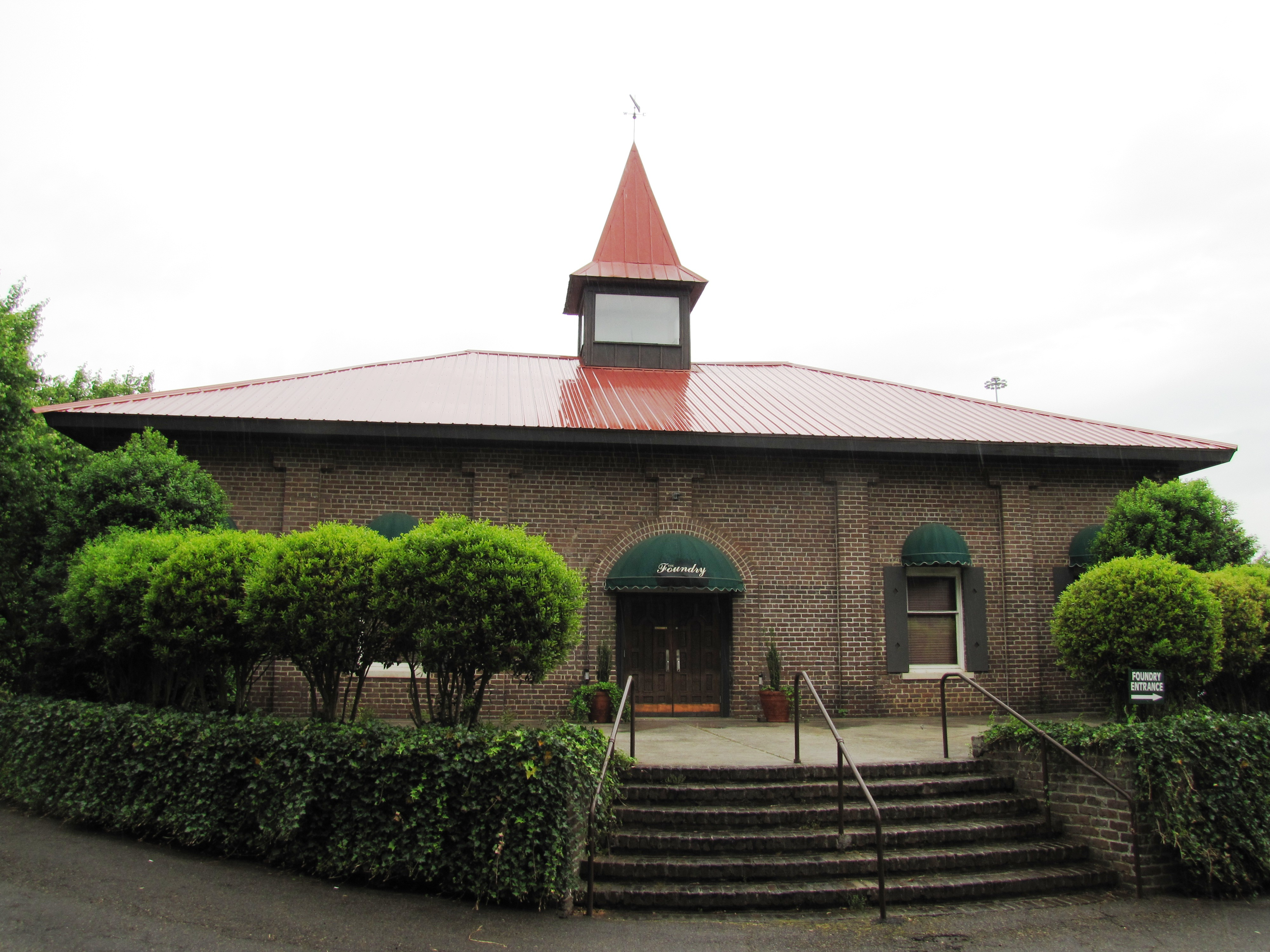 The Knoxville Iron Foundry building in Knoxville, Tennessee, USA. Built in 1865 as a railroad spike production facility, the building is now an event center for conferences and weddings.